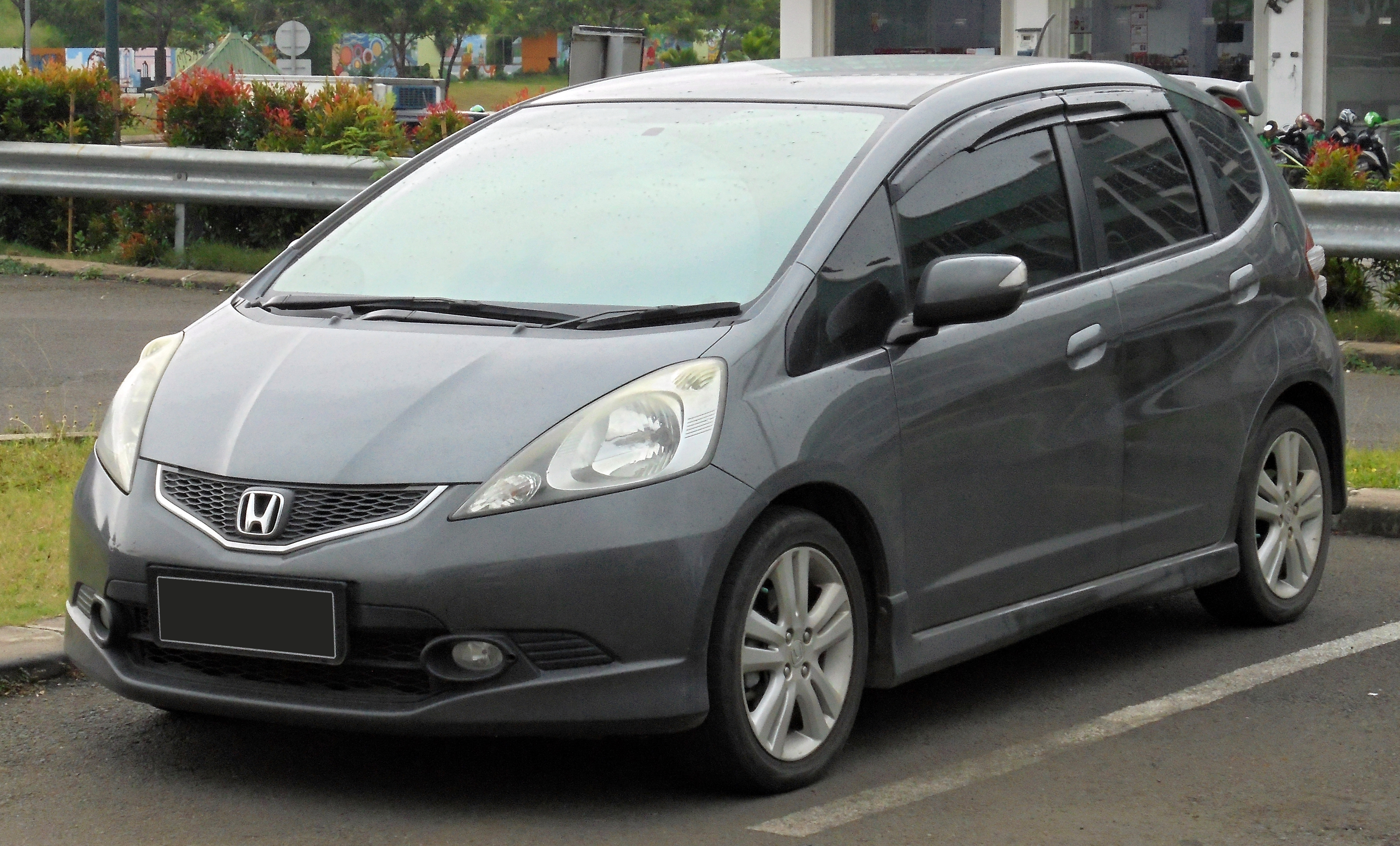 2011 Honda Jazz 1.5 RS hatchback (GE8) photographed in South Tangerang, Banten, Indonesia.